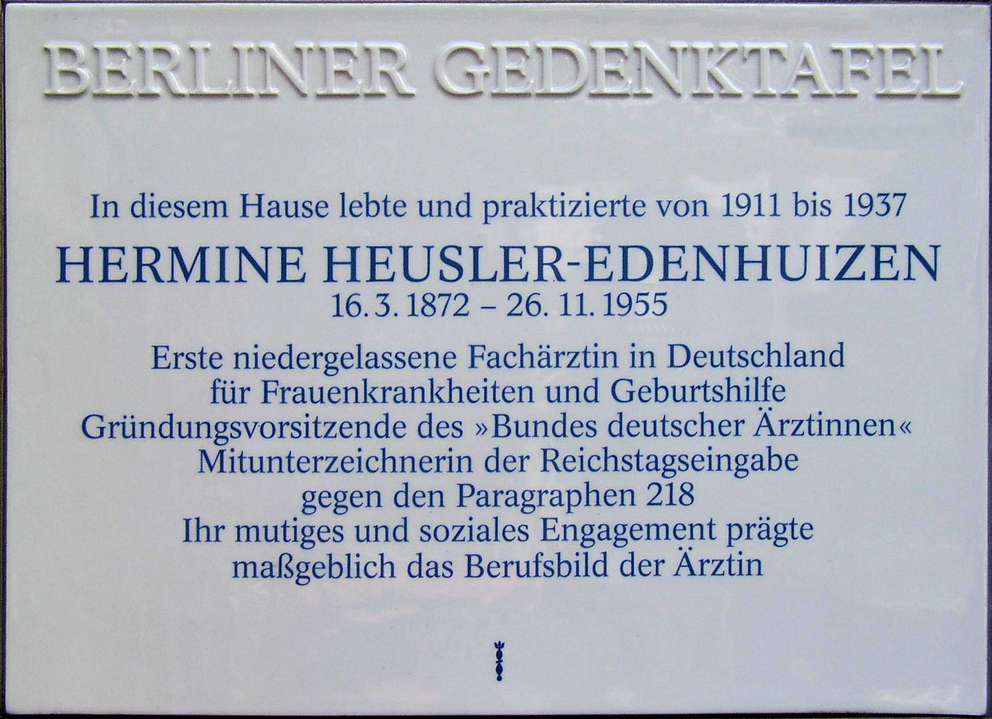 Berlin memorial plaque, Hermine Heusler-Edenhuizen, Rankestraße 35, Berlin-Charlottenburg, Germany